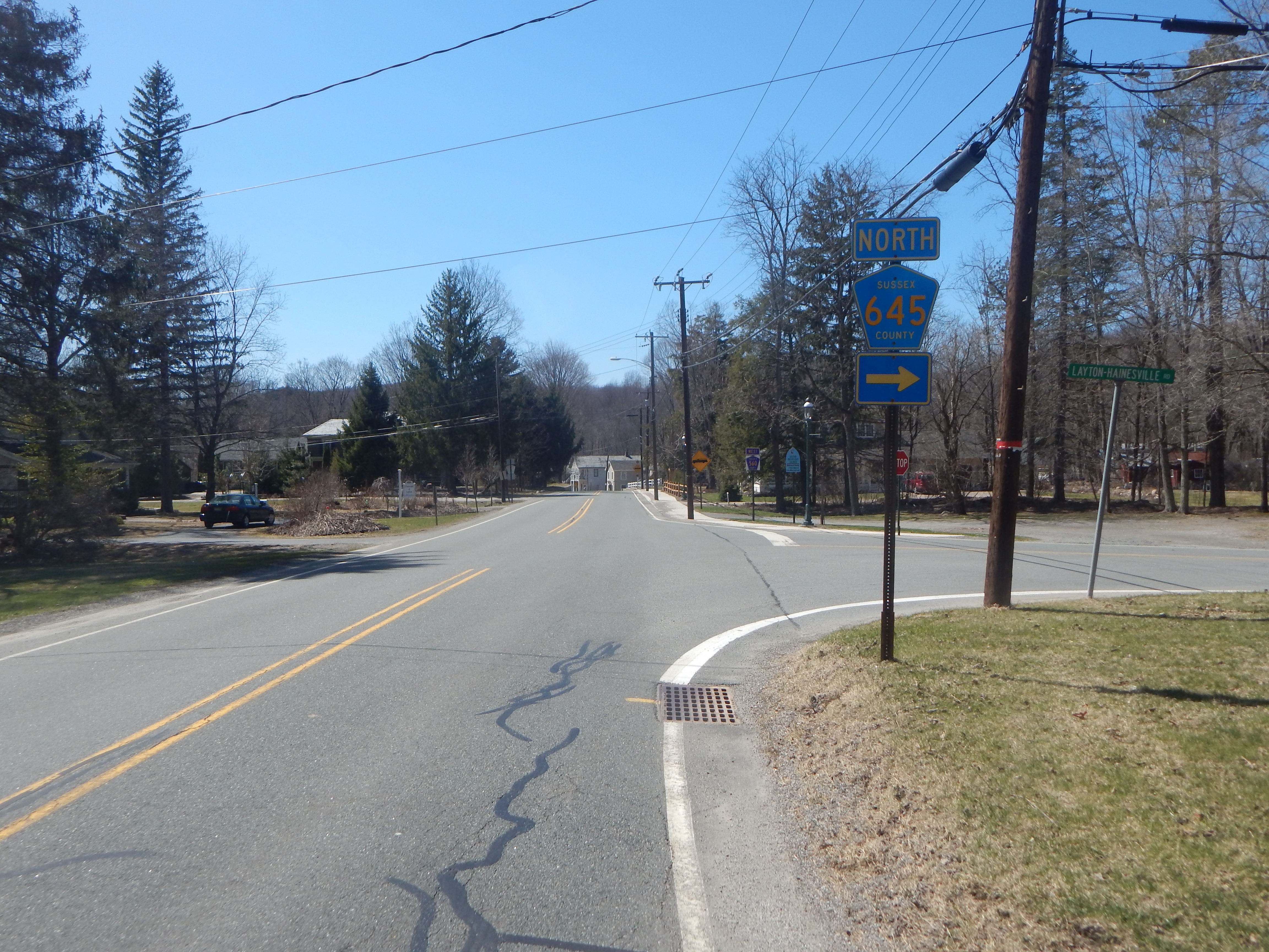 The junction of County Route 560 at the junction with CR 645 in Layton, Sandyston Township, Pennsylvania.